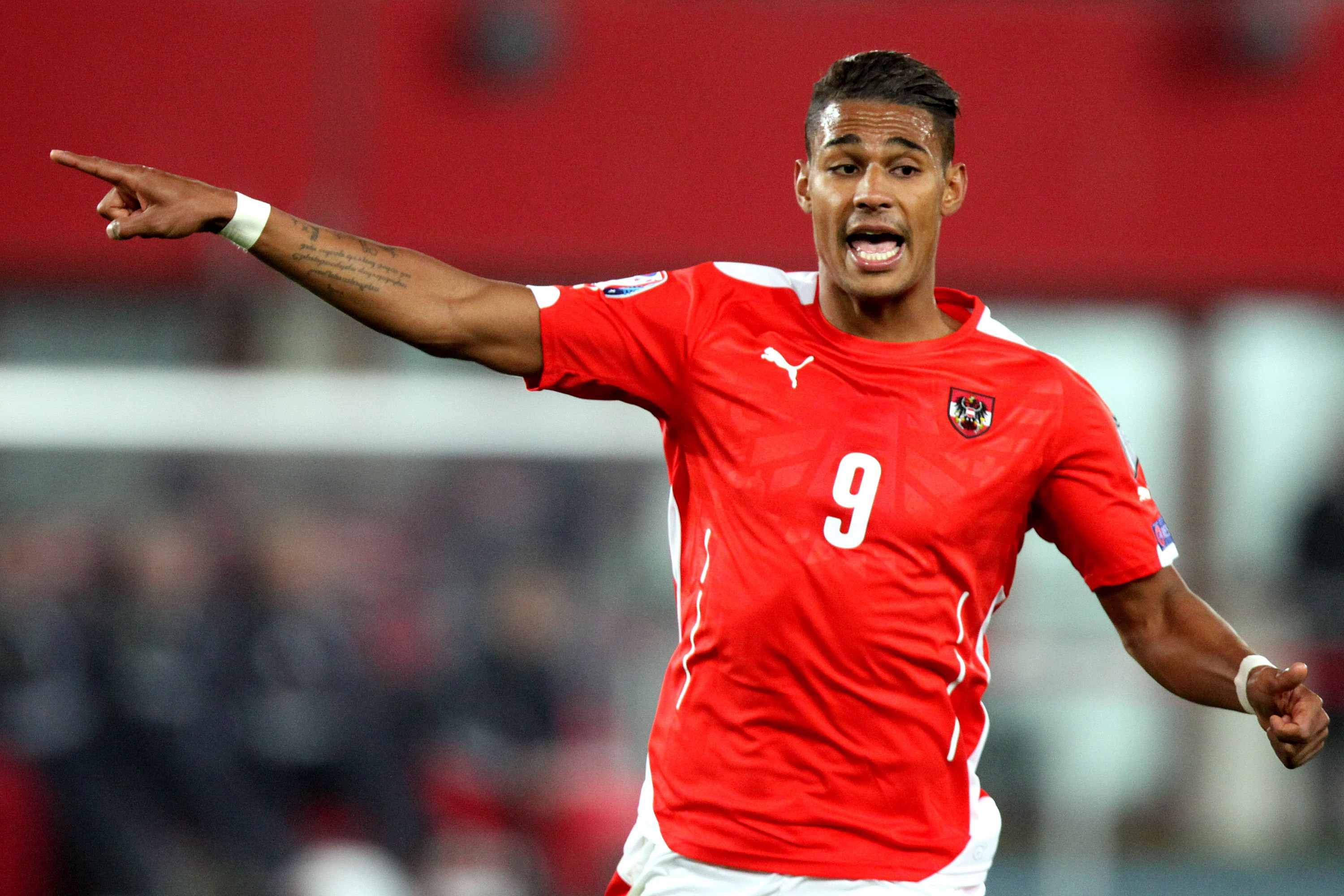 UEFA Euro 2016 qualifying, Group G – Austria (red shirts) vs. Liechtenstein (blue shirts) 3–0 (1–0) on 2015-10-12 in Ernst-Happel-Stadion, Vienna – The photo shows Rubin Okotie.